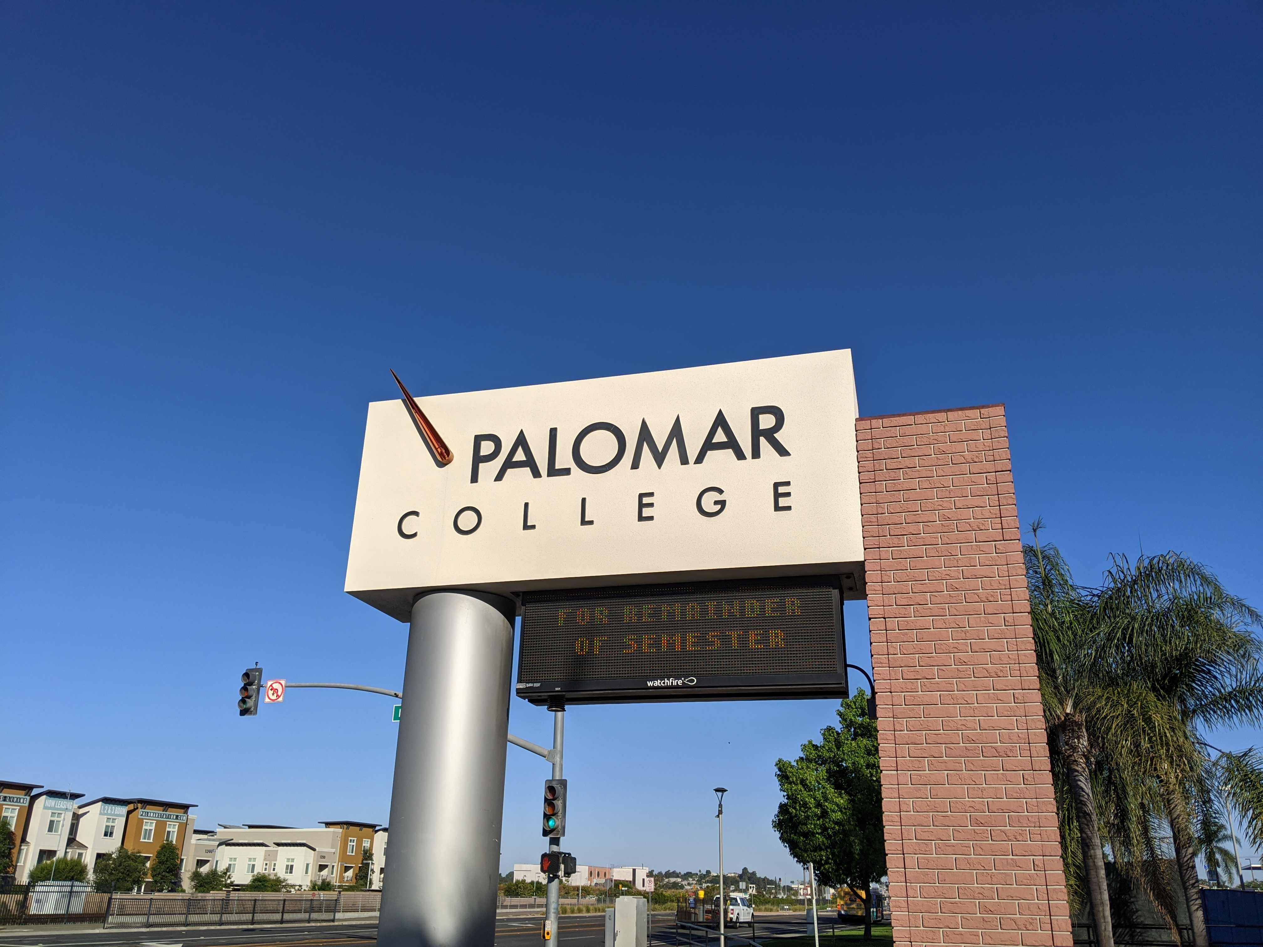 A photo of the Palomar college sign